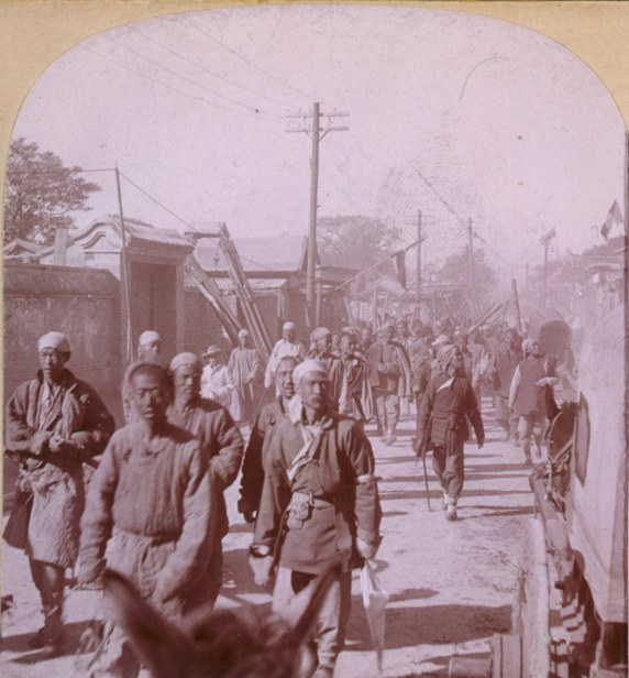 Company of Boxers, Tien-Tsin, China. Group of men walking down street.